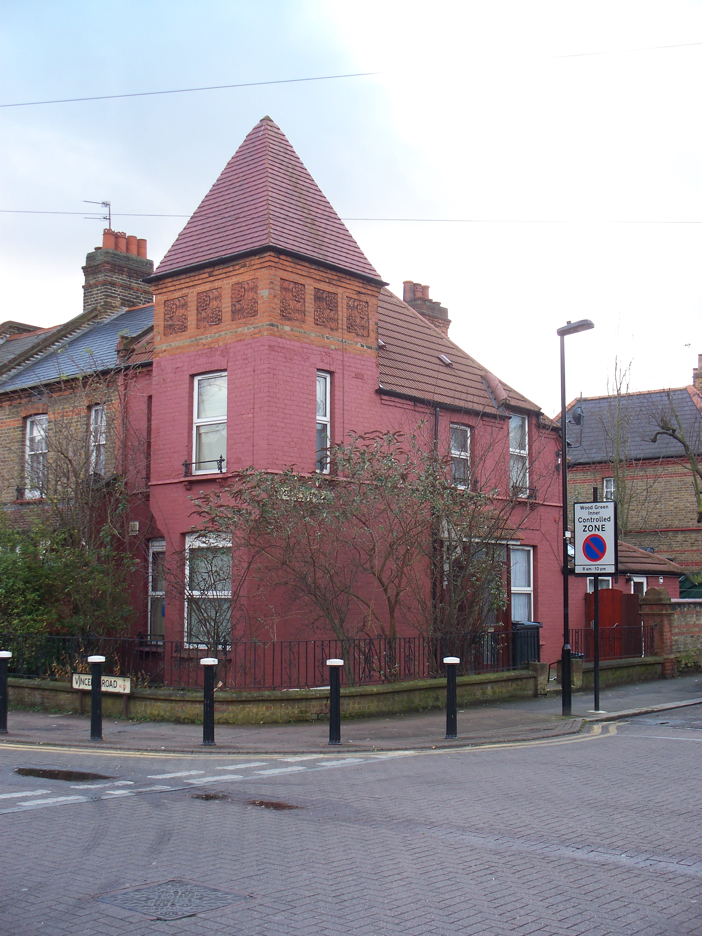 House in Noel Park, London N22. Photograph taken in a public location in the UK of a building on permanent public display, and exempt from copyright under Section 62 of the Copyright Designs & Patents Act 1988 ("it is not an infringement of copyright to film, photograph, broadcast or make a graphic image of a building, sculpture, models for buildings or work of artistic craftsmanship if that work is permanently situated in a public place or in premises open to the public")